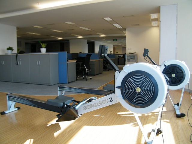 Concept2 D型划船器